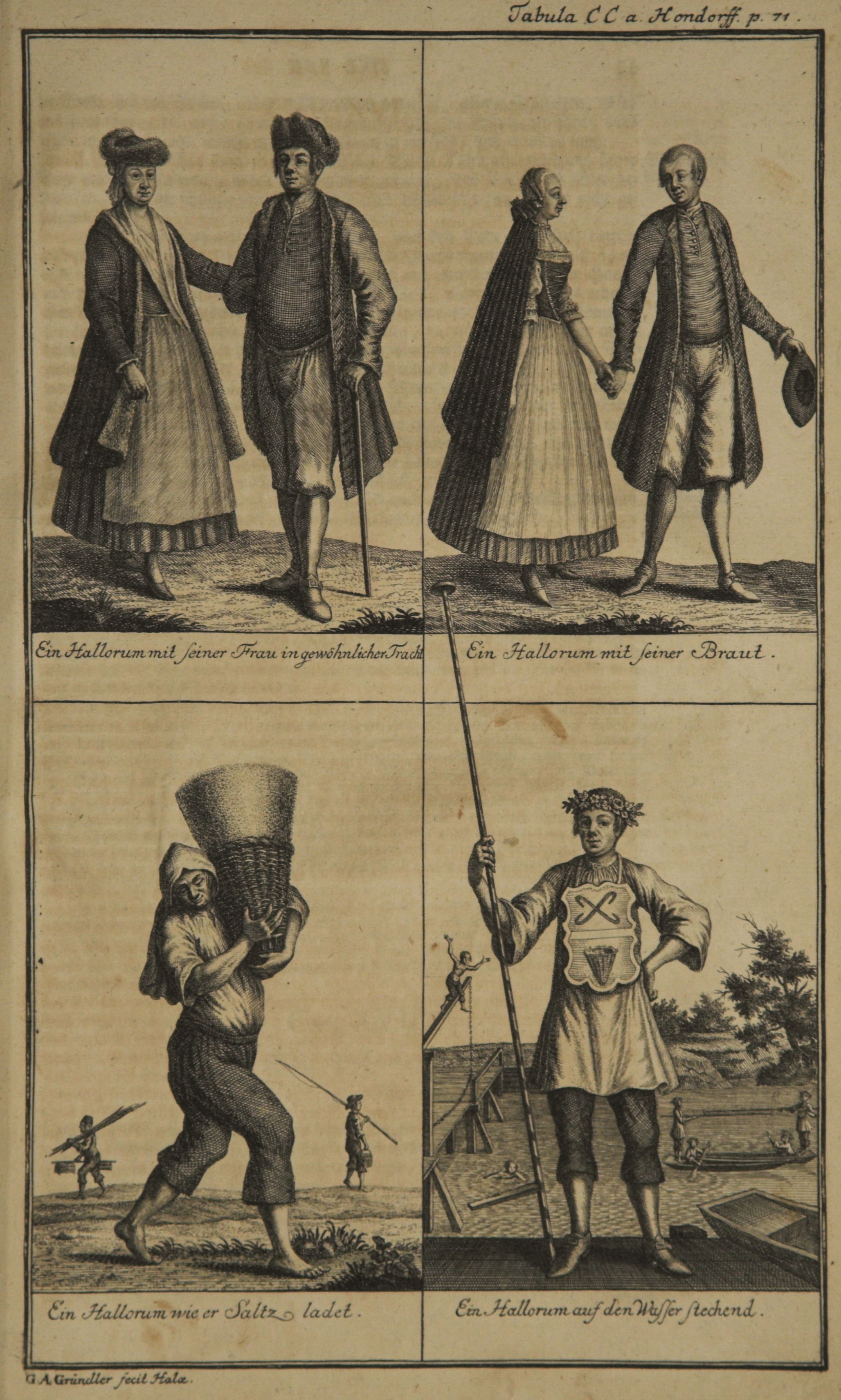 Halloren in Halle, Saxony-Anhalt, Germany